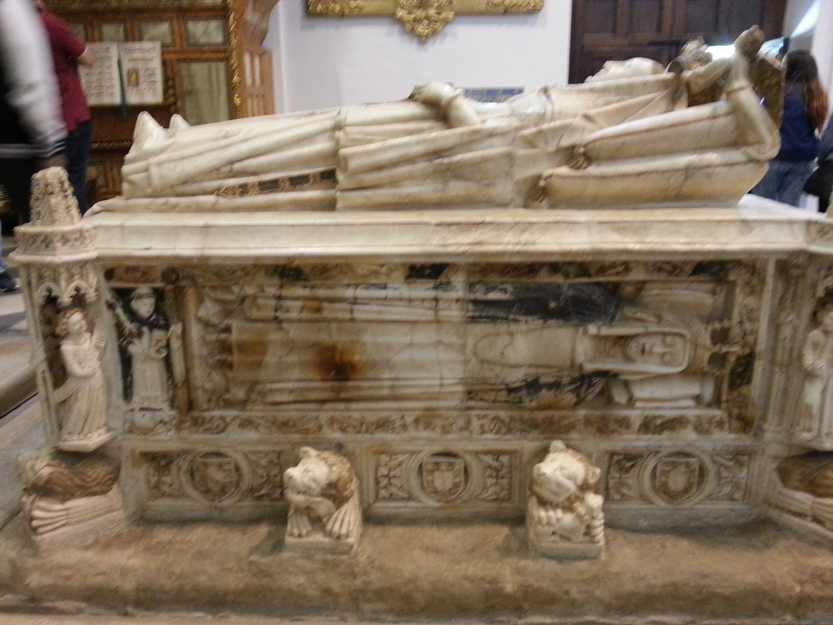 Tomb of Beatrice of Portugal, queen of Castile